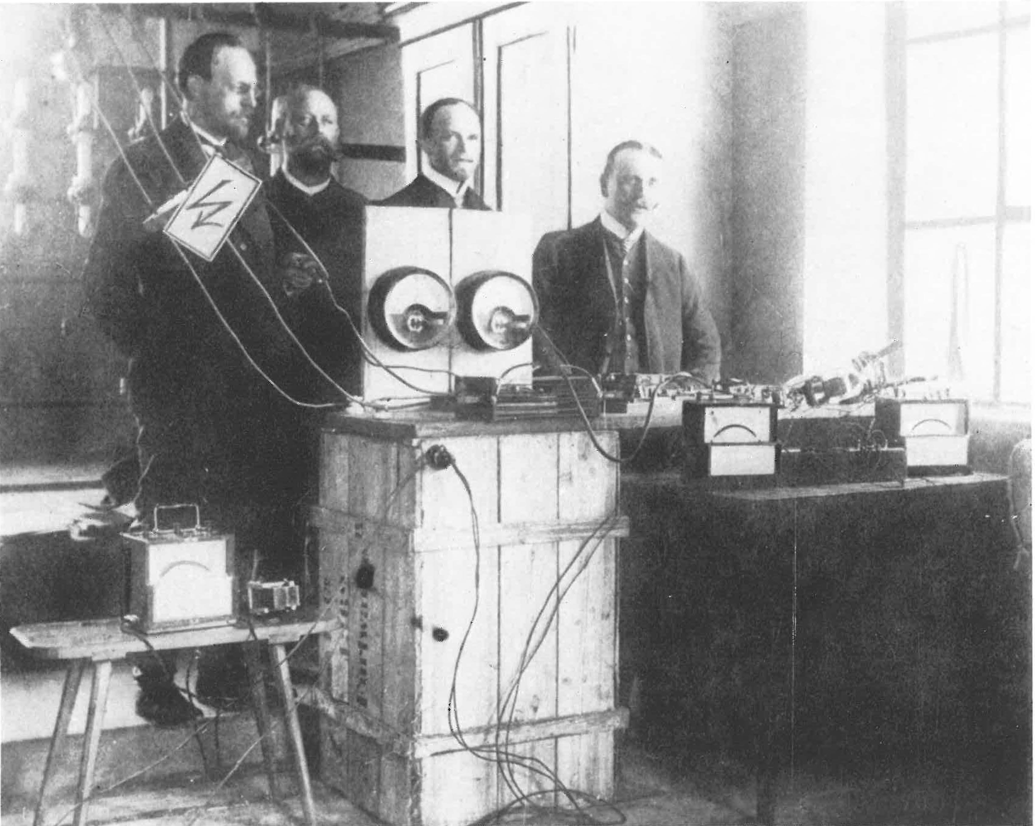 measurement